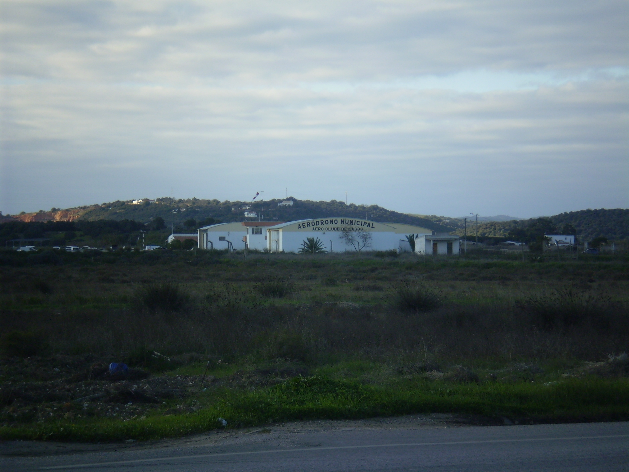 Brigadeiro Costa Franco Airfield, best known as the Lagos City Airfield, in the Algarve, Portugal.